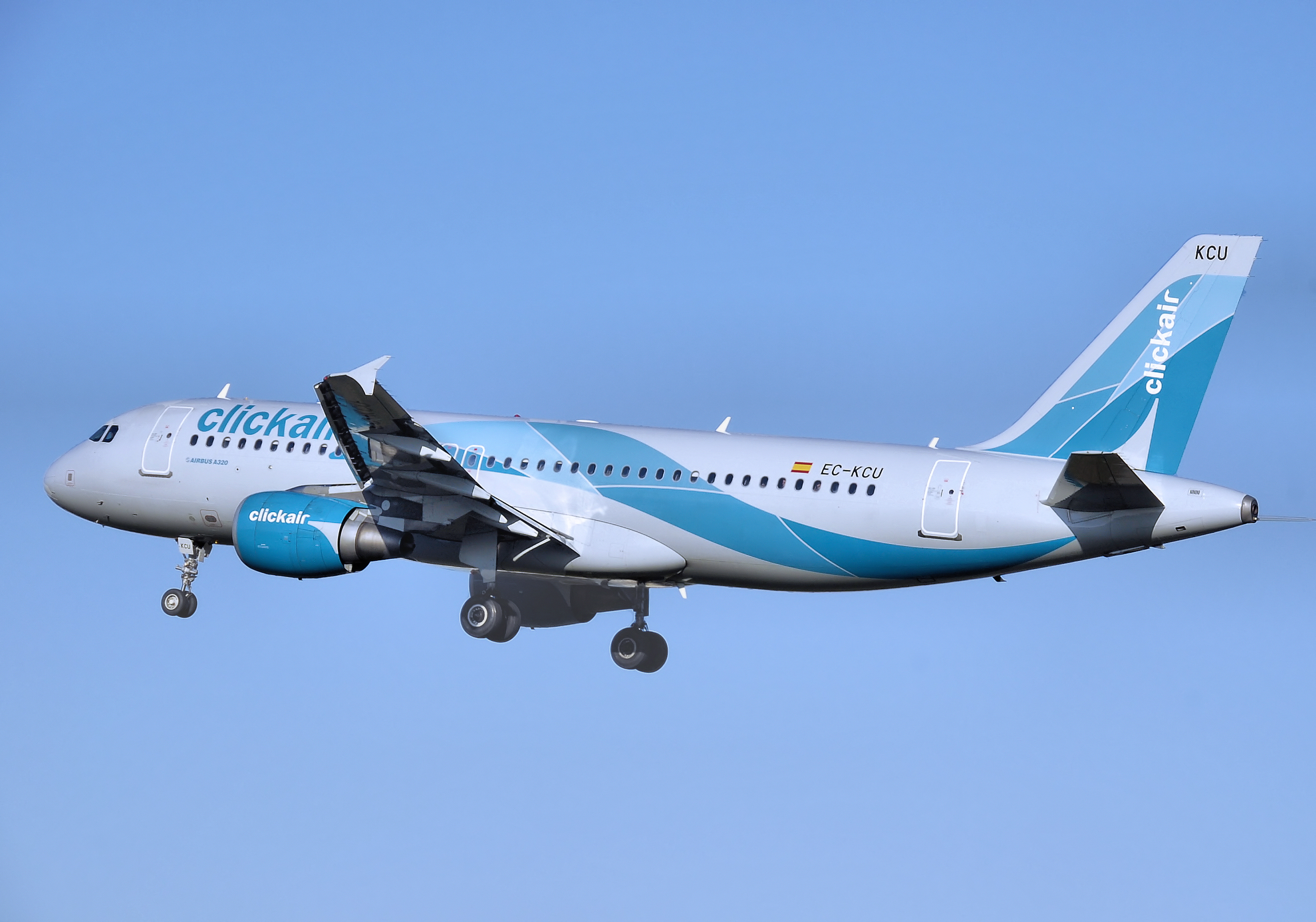 Clickair Airbus A320-200 (EC-KCU) lands at London Heathrow Airport, England.